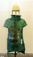 Mycenaean armor from Dendra - Commonly referred to as the Dendra Panoply